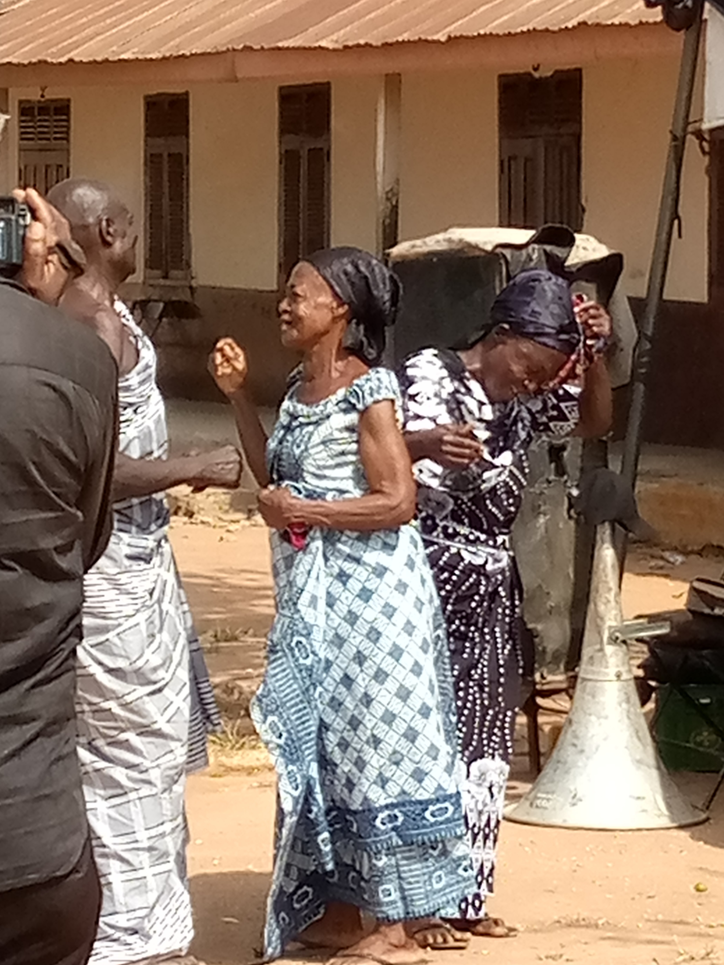 Guests present at the one week Funeral rite celebration of a dead loved one.